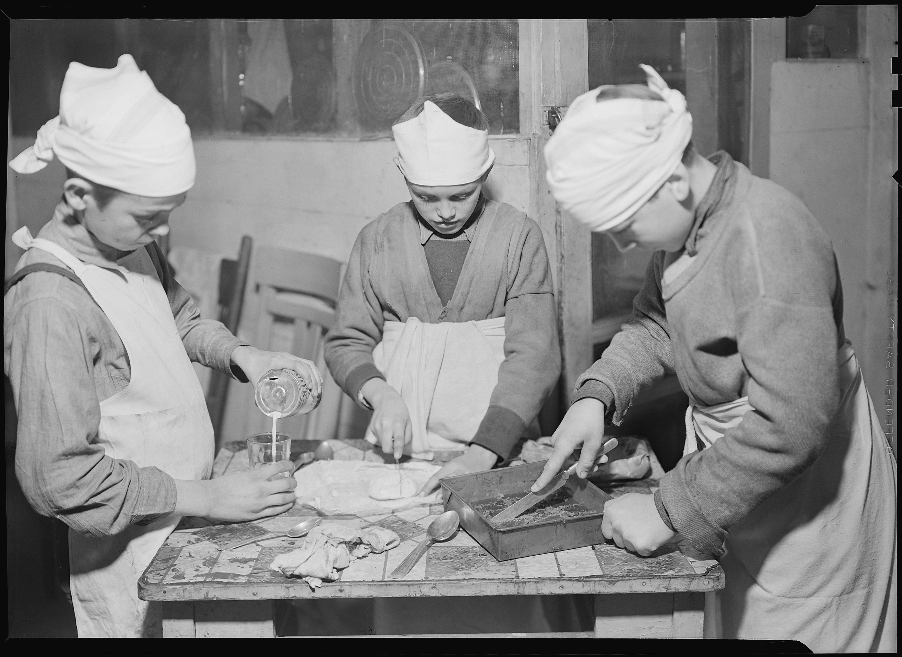 General notes: See also NWDNS-69-RP-115.